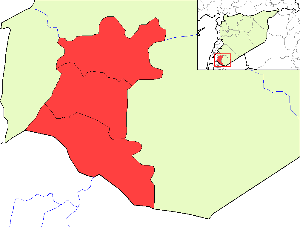 Map of the districts of Daraa governorate in Syria.